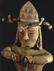 Kamiyasaku Tomb Haniwa. Japan. Costumed Male Haniwa. Cross-legged male figure. Ht. 91 cm. This haniwa is adorned with triangular designs in red pigment on his hat, face, gauntlets, and costume. The unique pointed crown decorated with small bells and triangular designs probably indicates some ceremonial function, and the ritualistic gesture seems to reinforce this supposition. As in most seated haniwa, the legs have been made disproportionately small. Important Cultural Property.